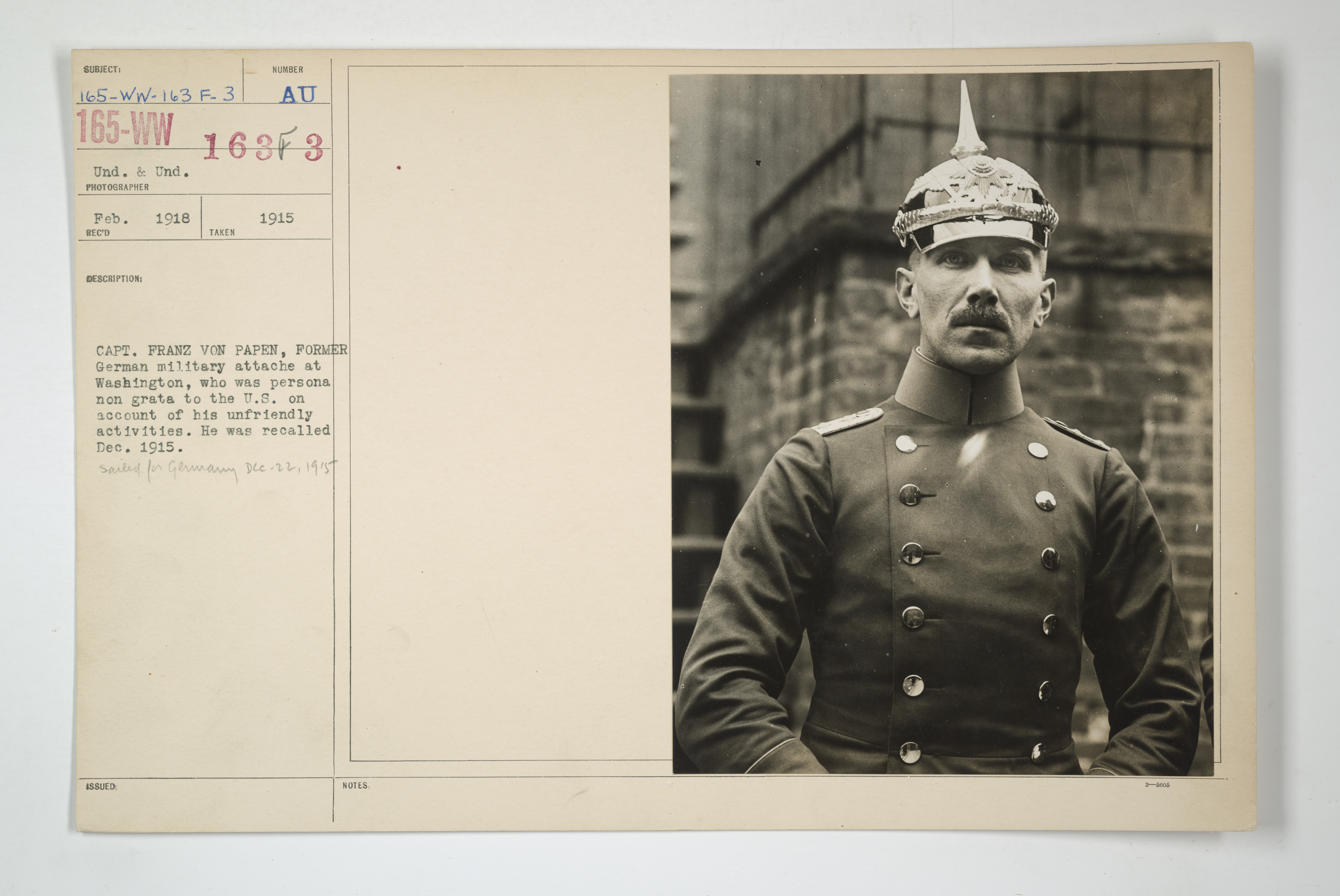 Scope and content: Date Taken: 1915 Photographer: Underwood and Underwood